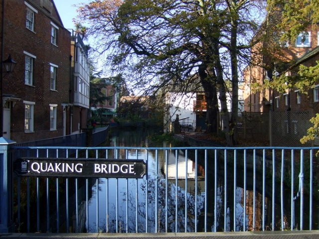 The Castle Mill Stream at Quaking Bridge According to British History Online "Quaking Bridge, first mentioned by name in 1297 but probably much older, crossed the mill-stream immediately west of the castle, on the line of a road which passed from the town into St. Thomas's parish before the castle's construction. The canons of Oseney passed over it daily to perform services in St. George's chapel in the castle. Responsibility for the bridge's upkeep was stated repeatedly to lie with the king. The bridge seems to have been built of timber; in 1821 it comprised three arches and was railed with open-work timber. The present iron bridge was built in 1835."